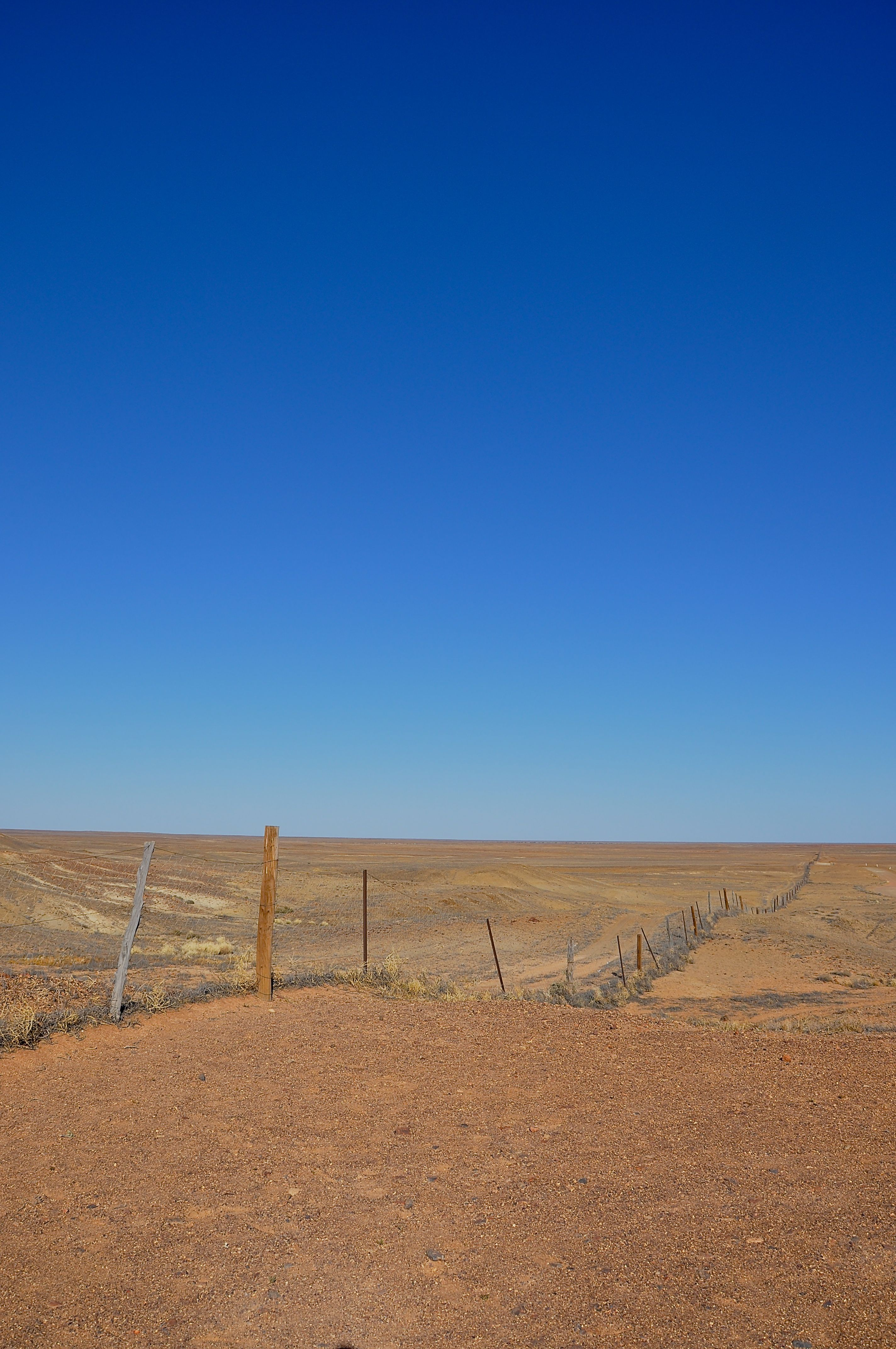 Dingo Fence between Coober Pedy and Oodnadatta